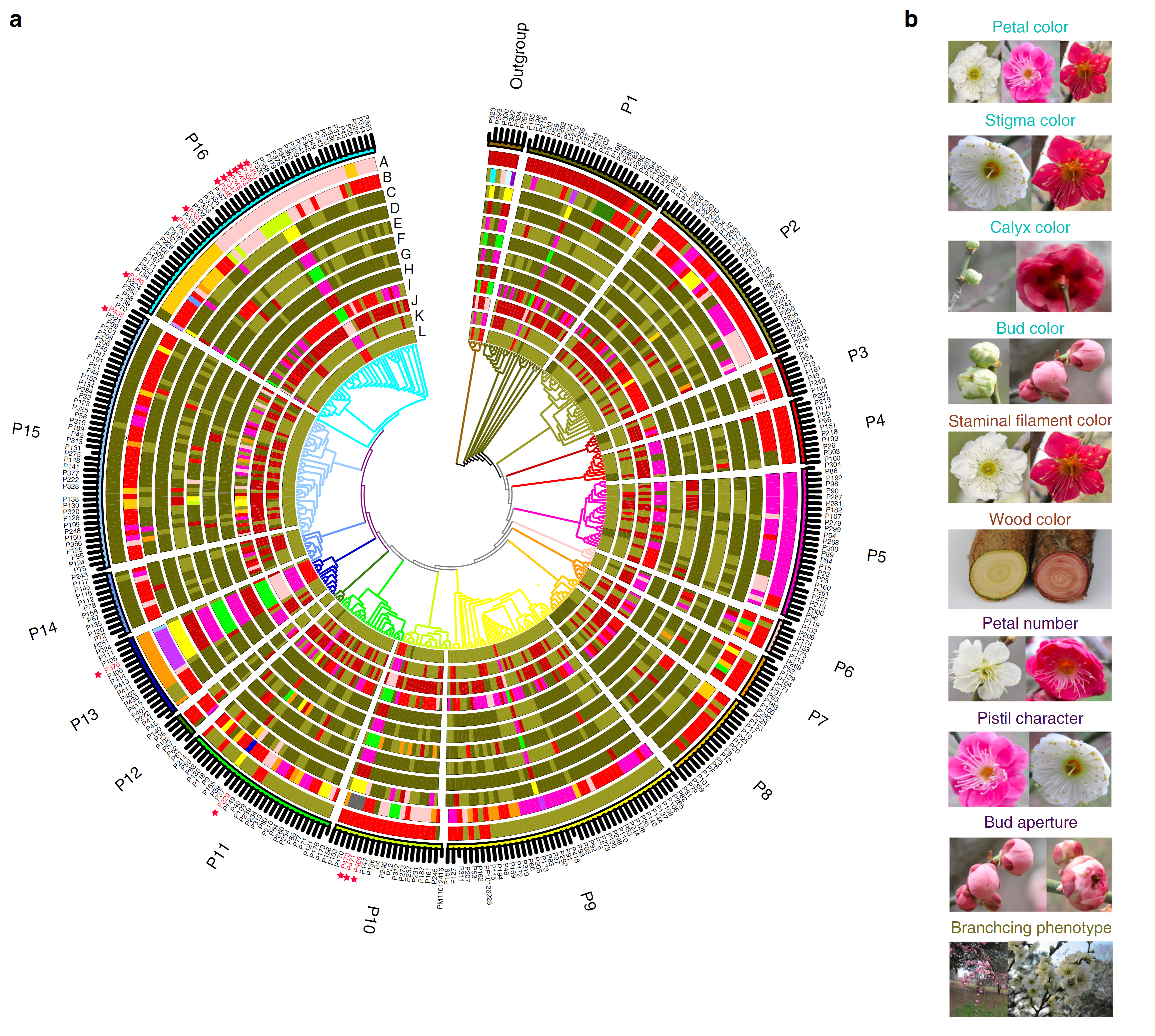 Description as given in the article: "Fig. 1 Phylogenetic tree and ten representative traits of 348 mei accessions. a The inner phylogenetic tree contains 16 subtrees and one outgroup. Different colors represent different subtrees. The clade color corresponds to the color of the outer circle with sample ID. The intermediate circles from the outer circle to the inner circle (A–L) represent population structure, cultivar group, and the traits petal color, stigma color, calyx color, bud color, staminal filament color, wood color, petal number, pistil character, bud aperture, and branching phenotype. The color in each circle represents the phenotype of the trait. b Images of several representative phenotypes of these 10 traits (photographed by T.R.C.)"